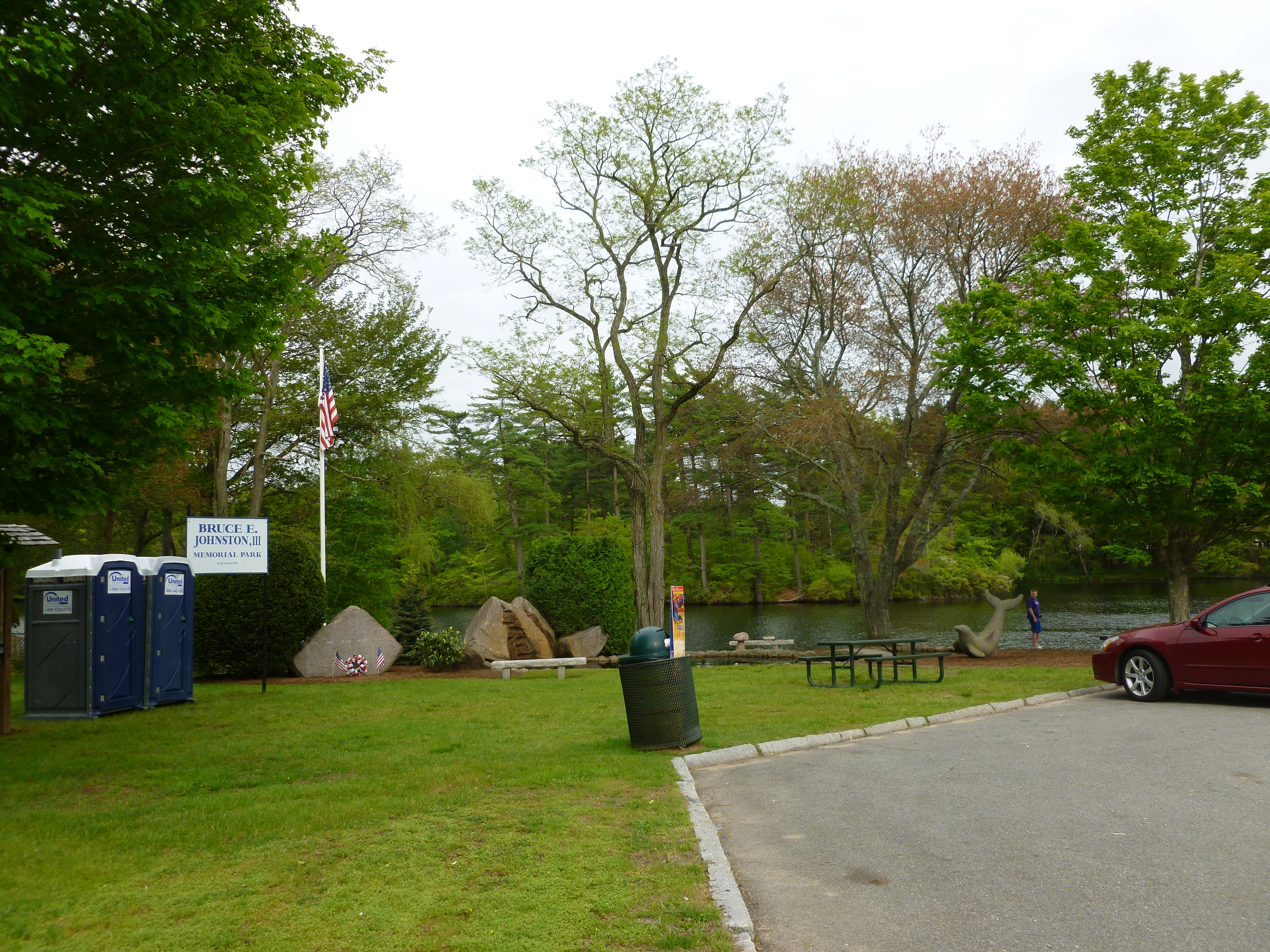 Bruce E. Johnston, III Memorial Park, abutting Johnson's Pond in Raynham, Massachusetts. Detailed view from east.